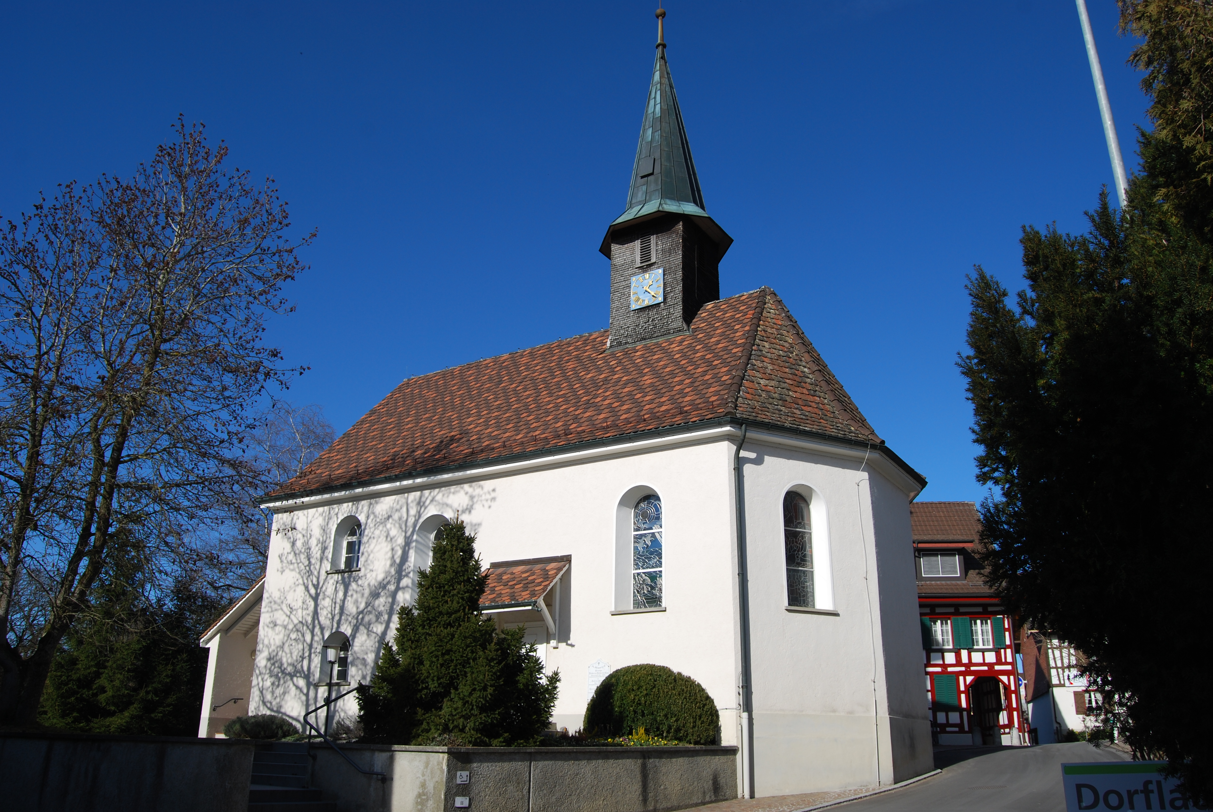 Church of Raperswilen, canton of Thurgovia, Switzerland